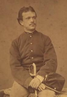 Adam Dembicki (Wien, 1875)